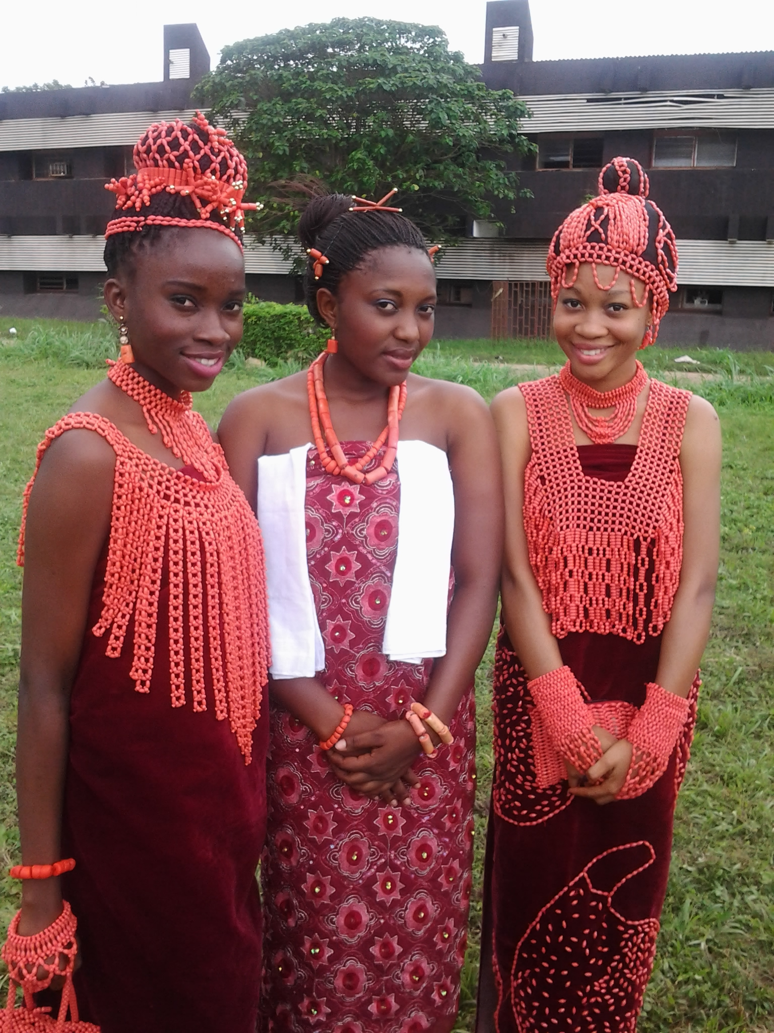 Edo females This is an image of Cultural Fashion or Adornment from Nigeria